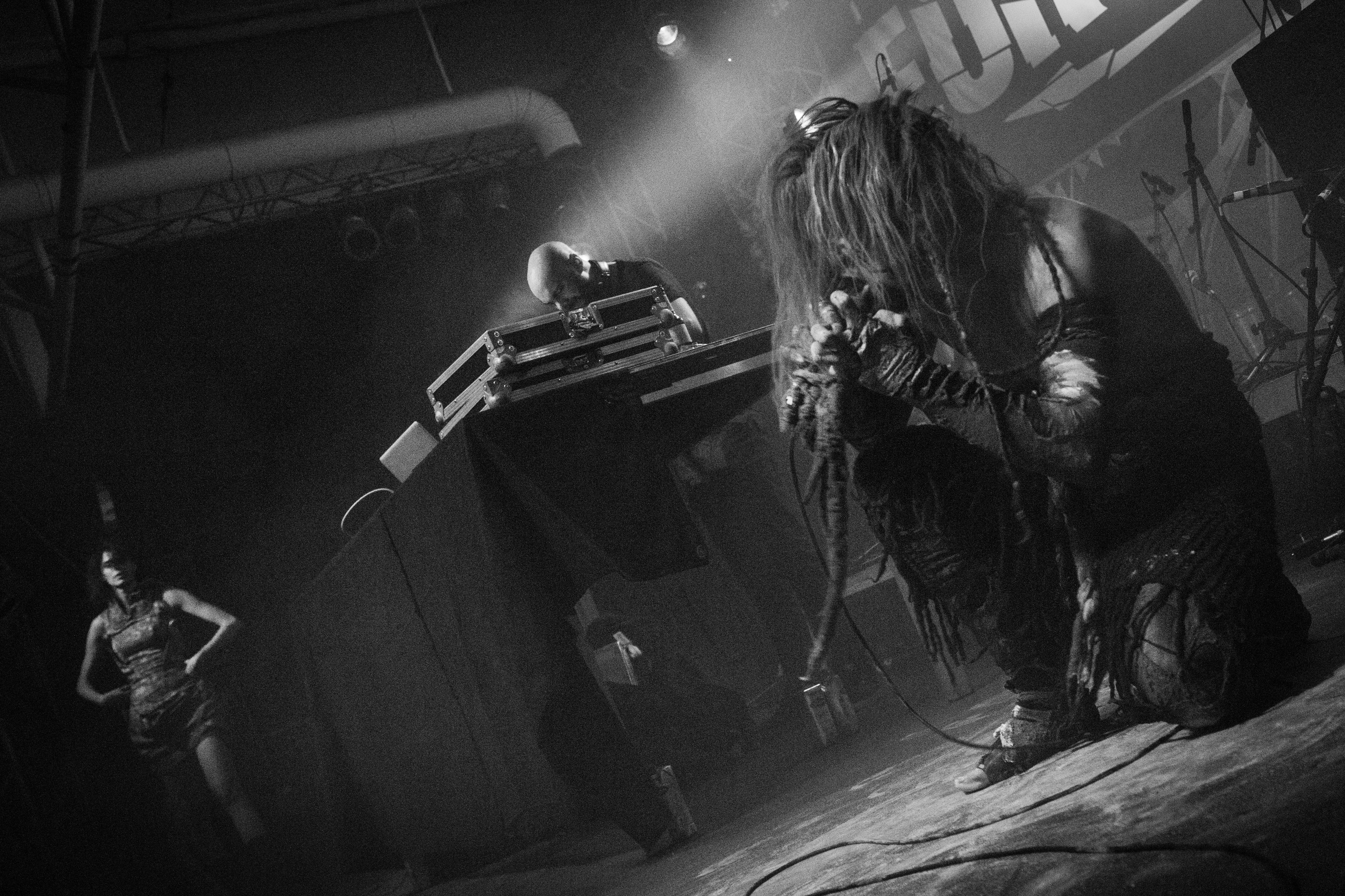 Igorrr performing live at Euroblast Festival 2015, Cologne, Germany